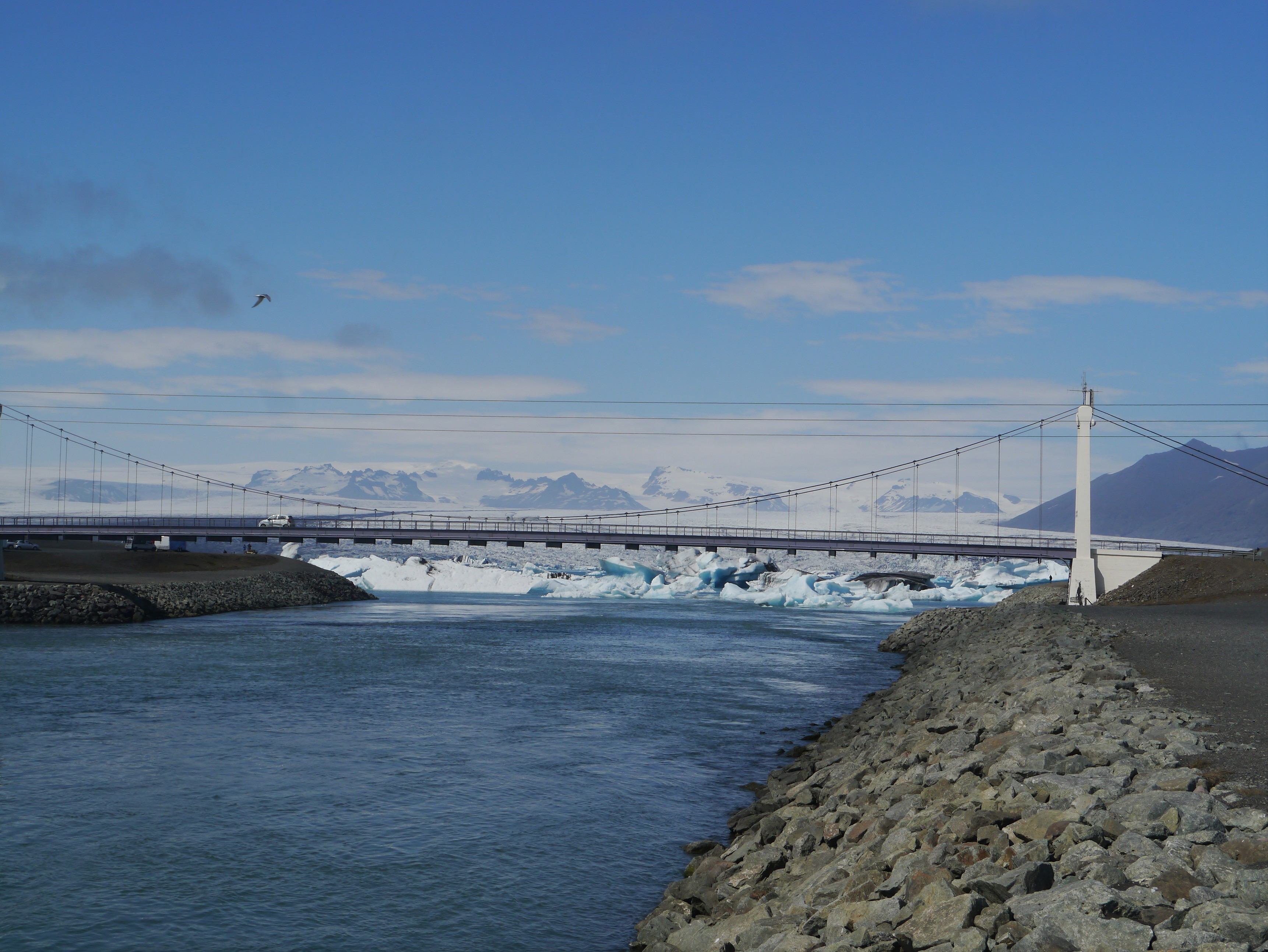 Jükulsárlón Glacier Lagoon, Southern Iceland